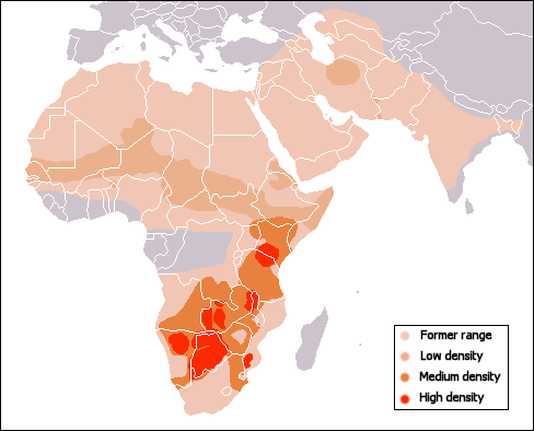 The cheetah's complete home range.